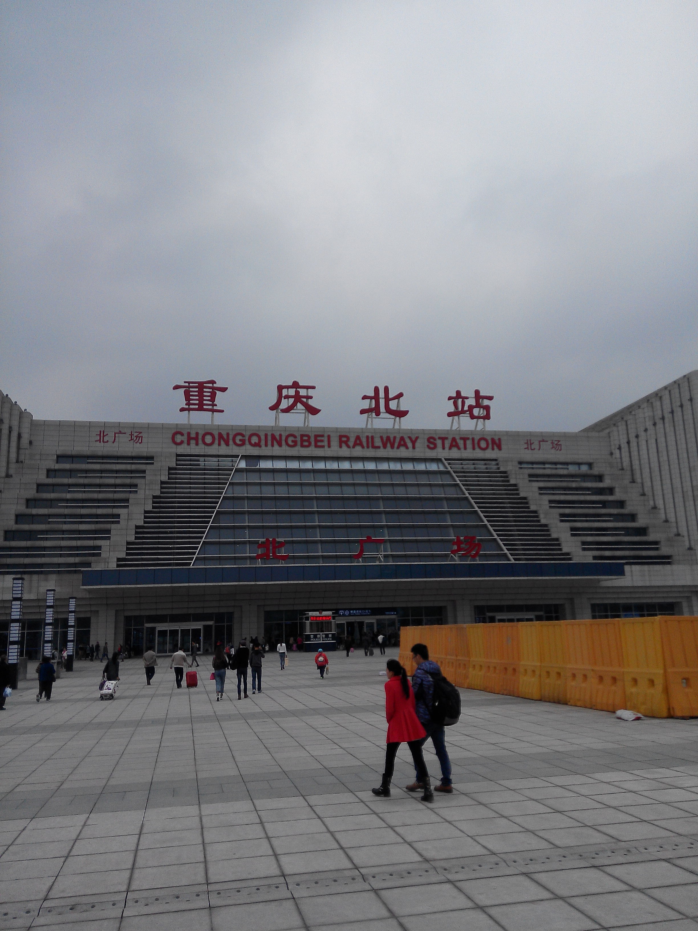 CHONGQINGBEI RAILWAY STATION